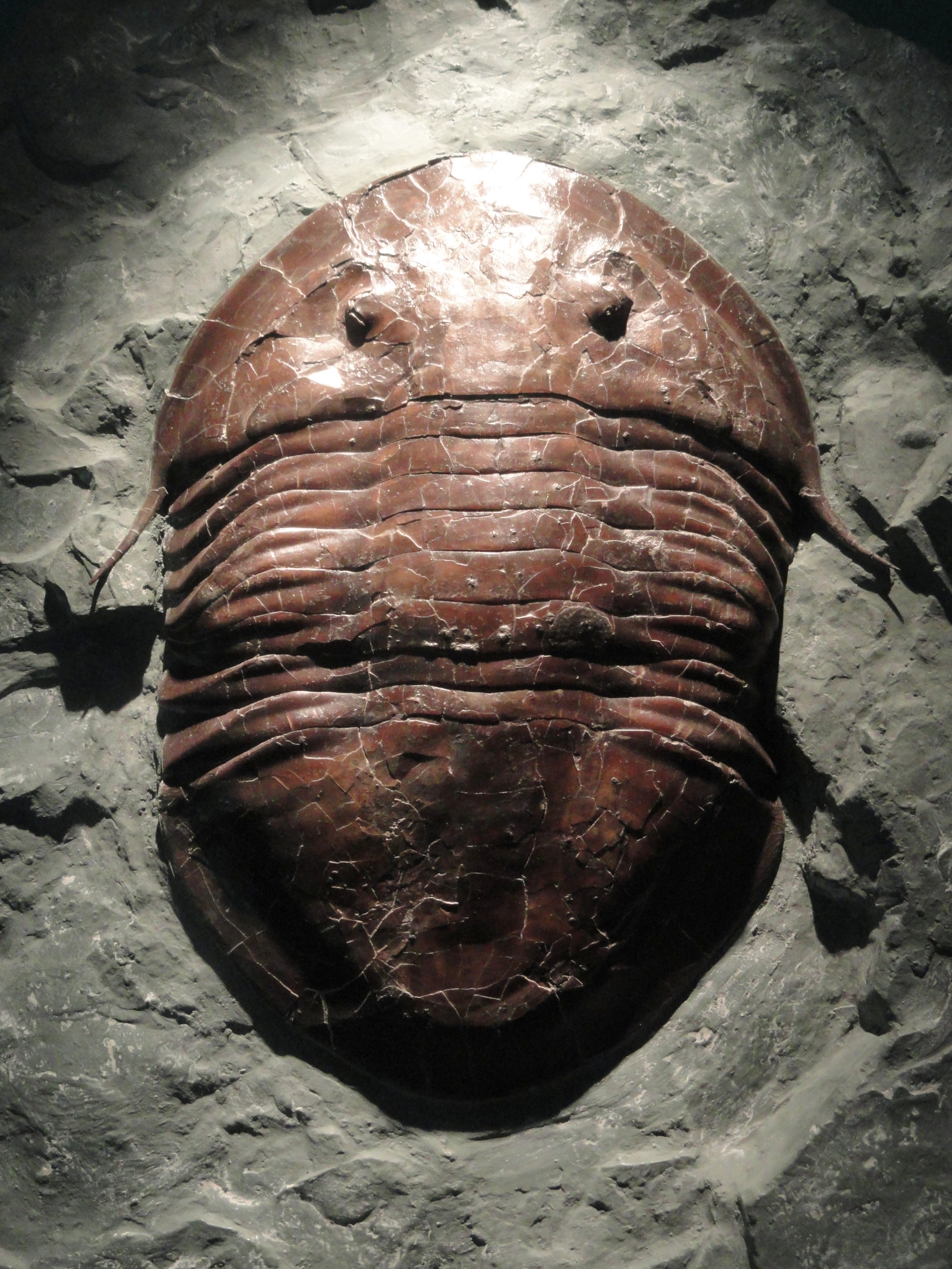 Exhibit in the National Museum of Natural History, United States, in Washington, DC, USA.